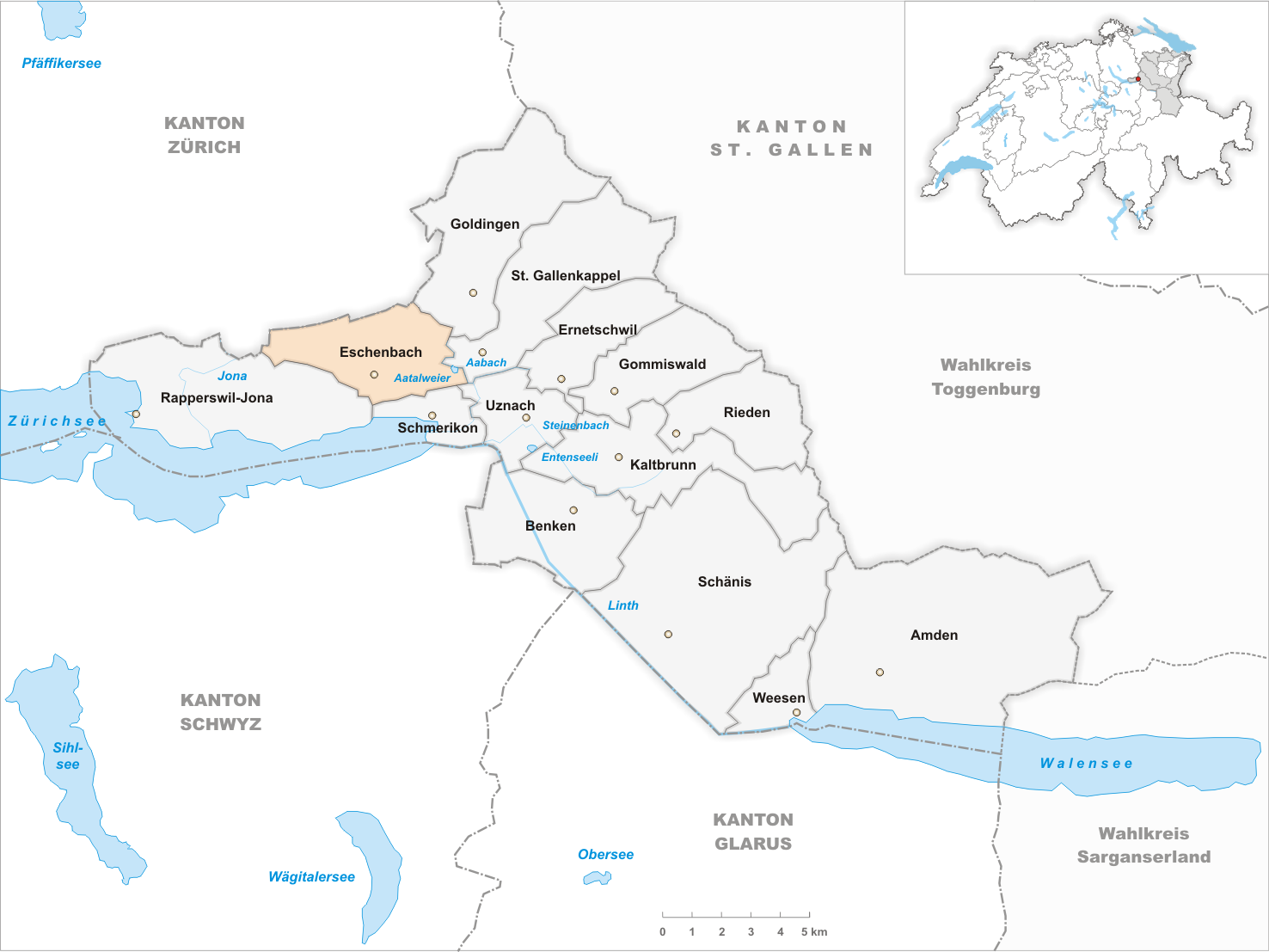 map Municipality Eschenbach